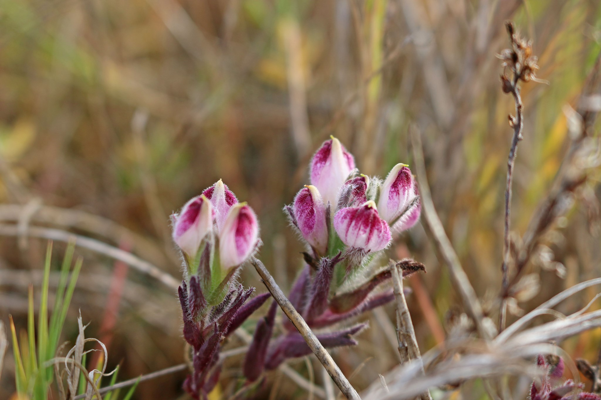 Federally endangered salt marsh bird's-beak (Chloropyron maritimum ssp. maritimum). Our team of botanists and coastal biologists, are working with partners to develop and implement a recovery program for salt marsh bird's-beak in response to dune encroachment, and other threats from invasive species.(Chloropyron maritimum ssp. maritimum). Our team of botanists and coastal biologists, are working with partners to develop and implement a recovery program for salt marsh bird's-beak in response to dune encroachment, and other threats from invasive species. Photo by Hazel Rodriguez/USFWS